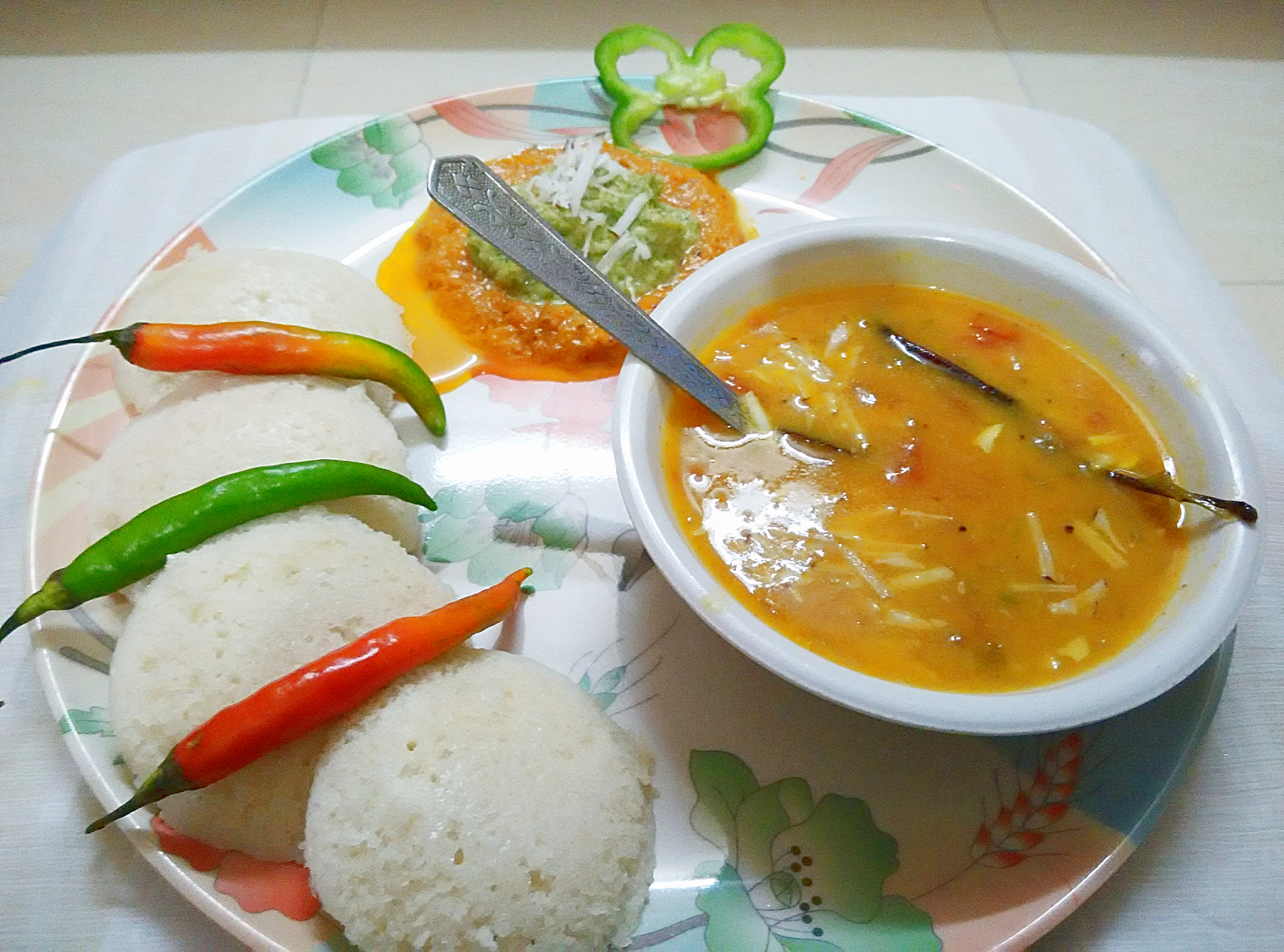 The four idli represents the four major religious of our country. and the chill tied the religious with each other. As the idli and sambhar mixed, India is the country of "Anekta me Ekta". This dish represents the secular India.